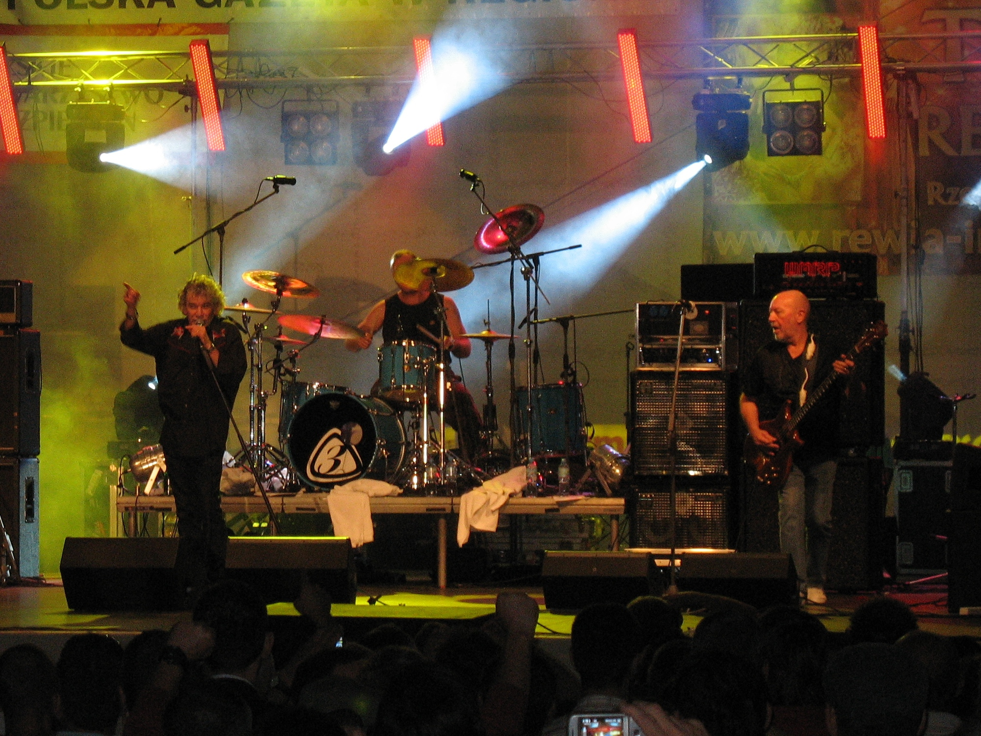 Nazareth in Rzeszów 2009-09-03